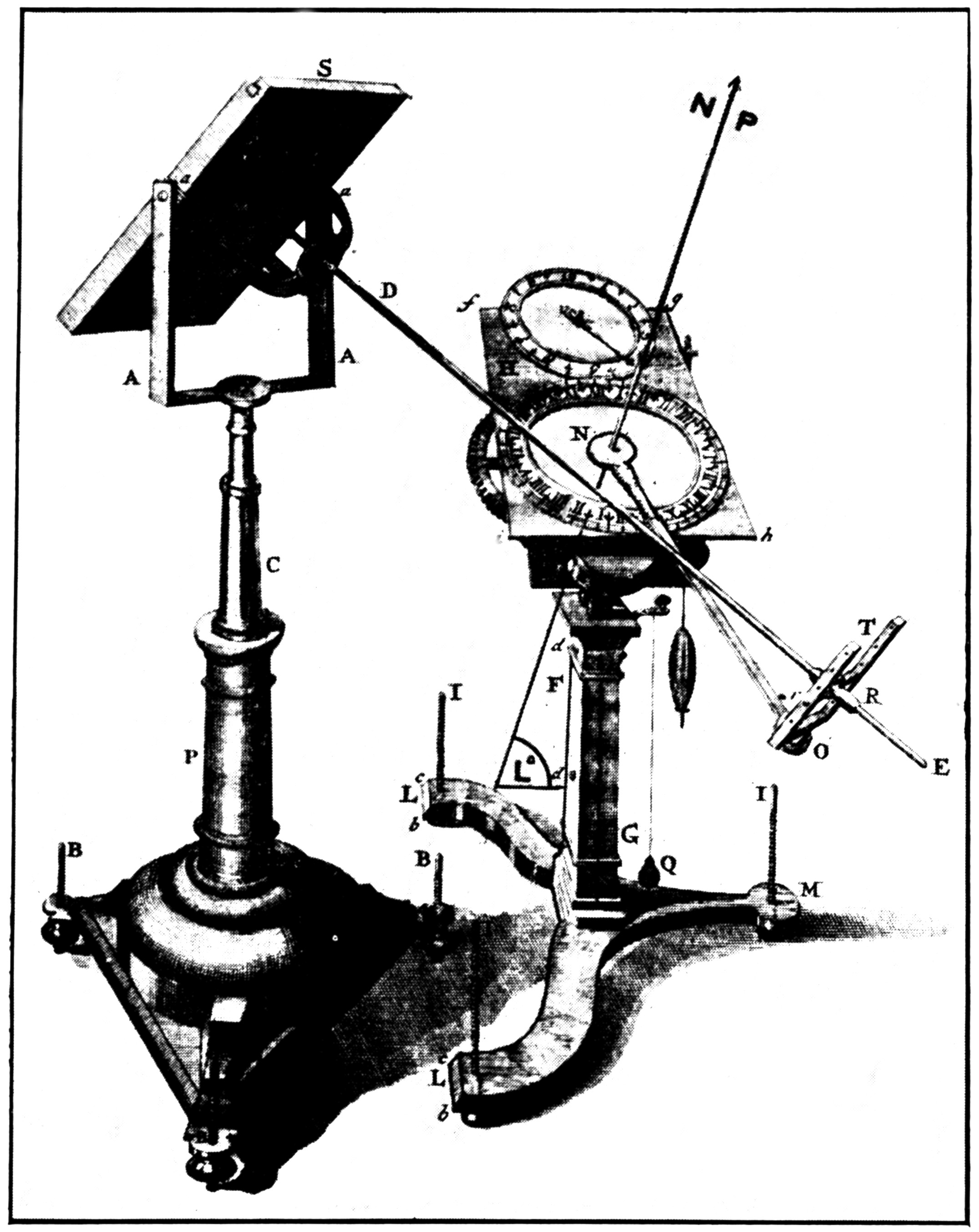 caption: "Fig. 77. One-Mirror Heliostat of s'Gravesande. (From his: Elementa Mathematica Physices, Tomus II, Tabula LXXXIII). This picture is a facsimile except that the clock-shaft has been extended above and below. B B Base of the mirror support with leveling screws. P Hollow cylinder in which the mirror support C can rotate. C The pillar with mirror fork at the upper end. S Plane mirror. D E Shaft at right angles to the mirror and extending to the fork at the end of the clock-hand (N O). L L M Foot of the support for the clock-work. I I I The leveling screws of the support."